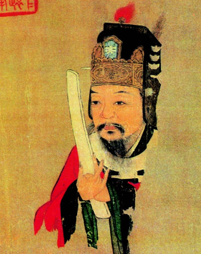 Fan Zhonwen (989-1052), Chinese polititian and literary figure